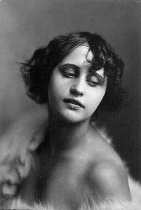 Russian first silent movie star Vera Kholodnaya (1910s).